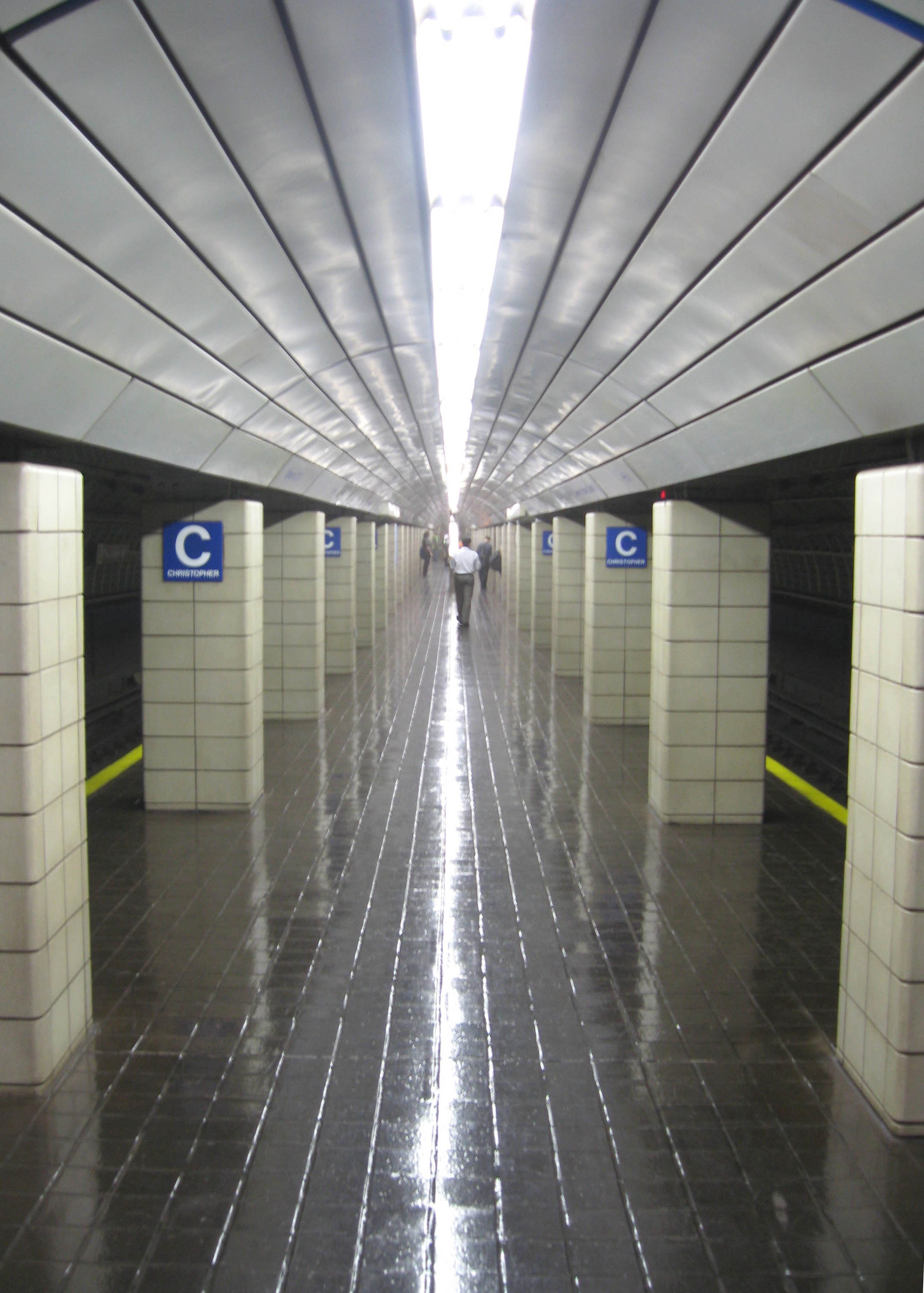 Looking along platform of Christopher Street (PATH station)